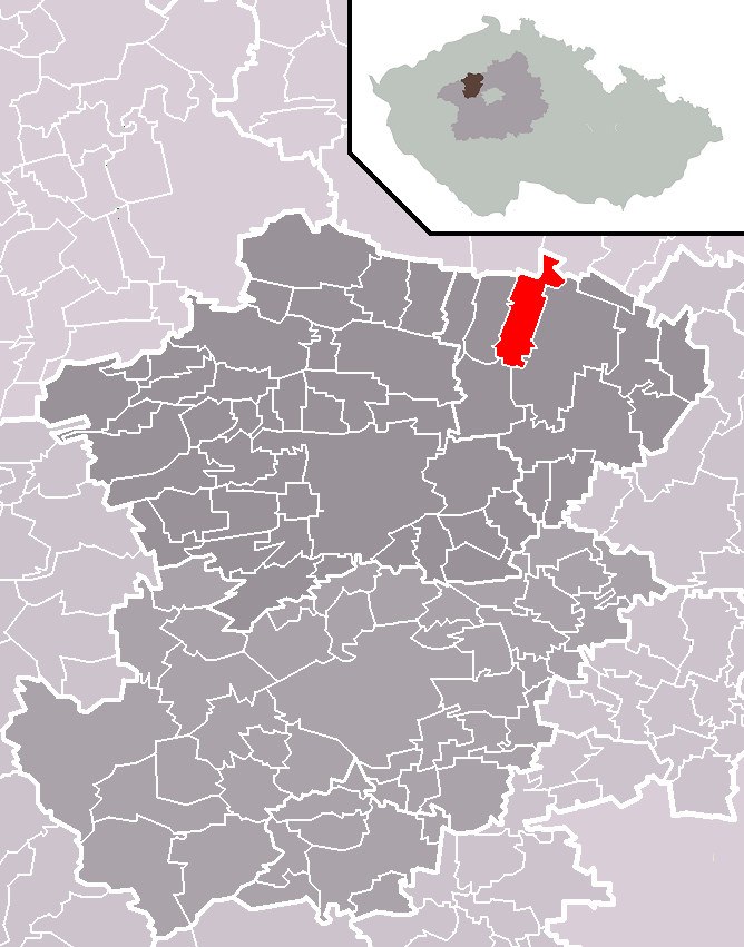 Location of Hospozín municipality within Kladno District and administrative area of Slaný as a Municipality with Extended Competence.